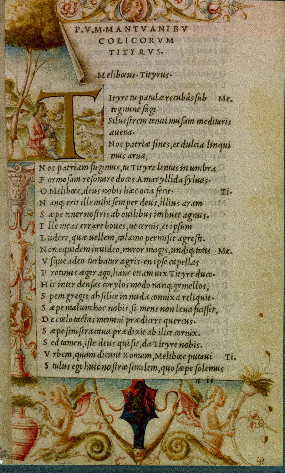 1501 edition of Virgil (Vergil) printed by Aldus Manutius.